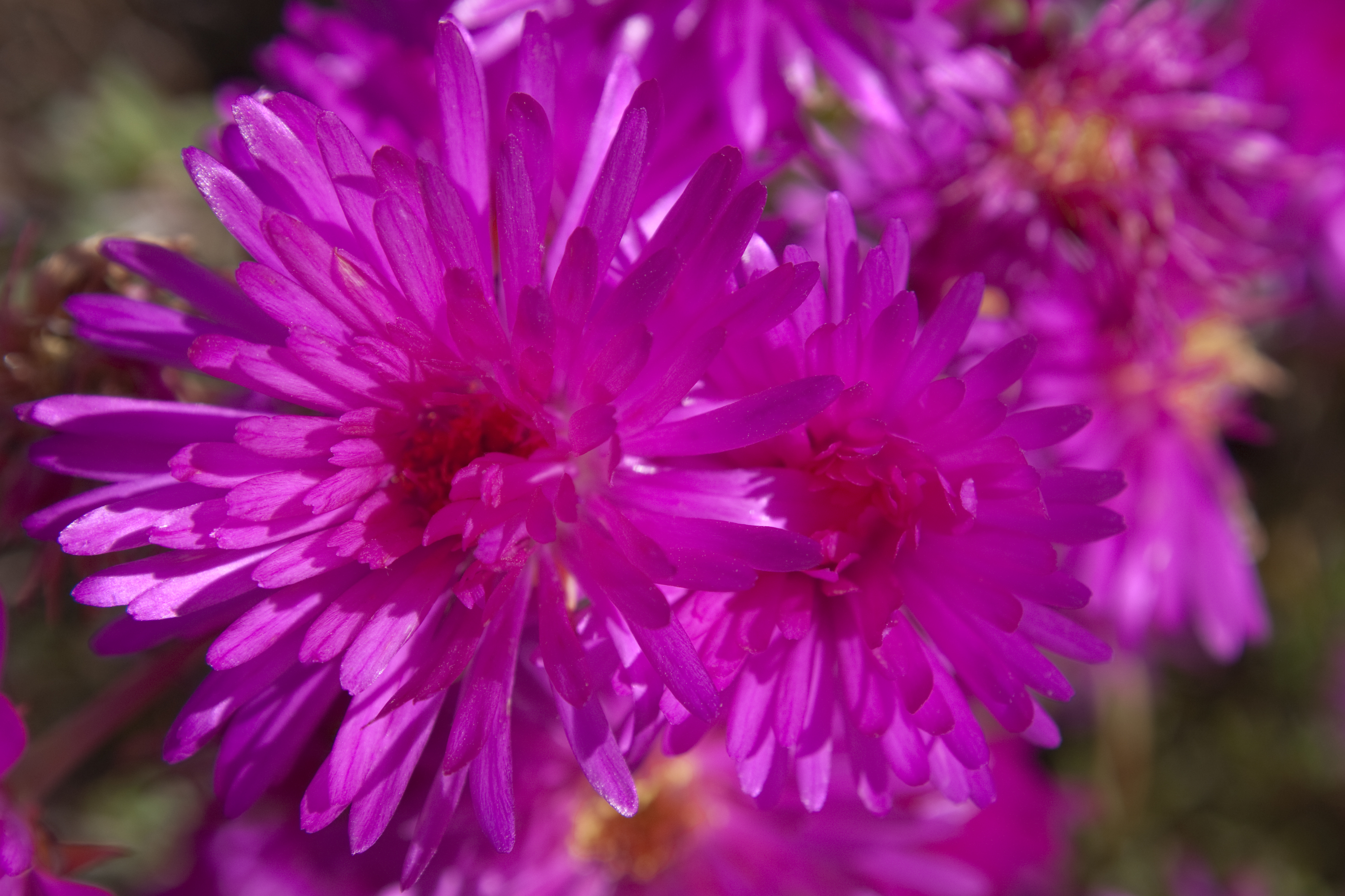 Lampranthus multiradiatus at the Adelaide Botanic Gardens.